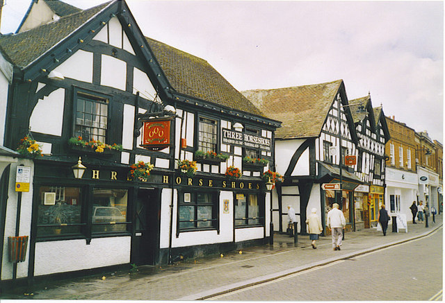 The Three Horseshoes, Leominster. Leominster is an attractive market town with many half-timbered buildings remaining. The Three Horseshoes is in Corn Square, whose name itself reflects the market history in Leominster.